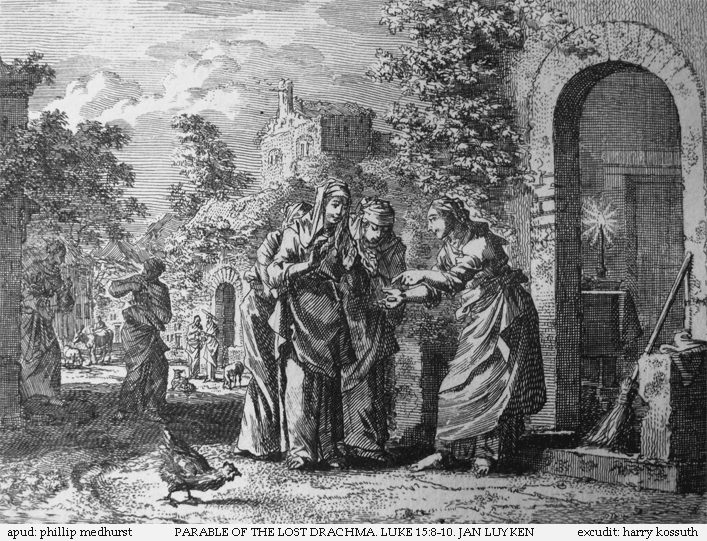 An etching by Jan Luyken illustrating Luke 15:8-10 in the Bowyer Bible, Bolton, England.